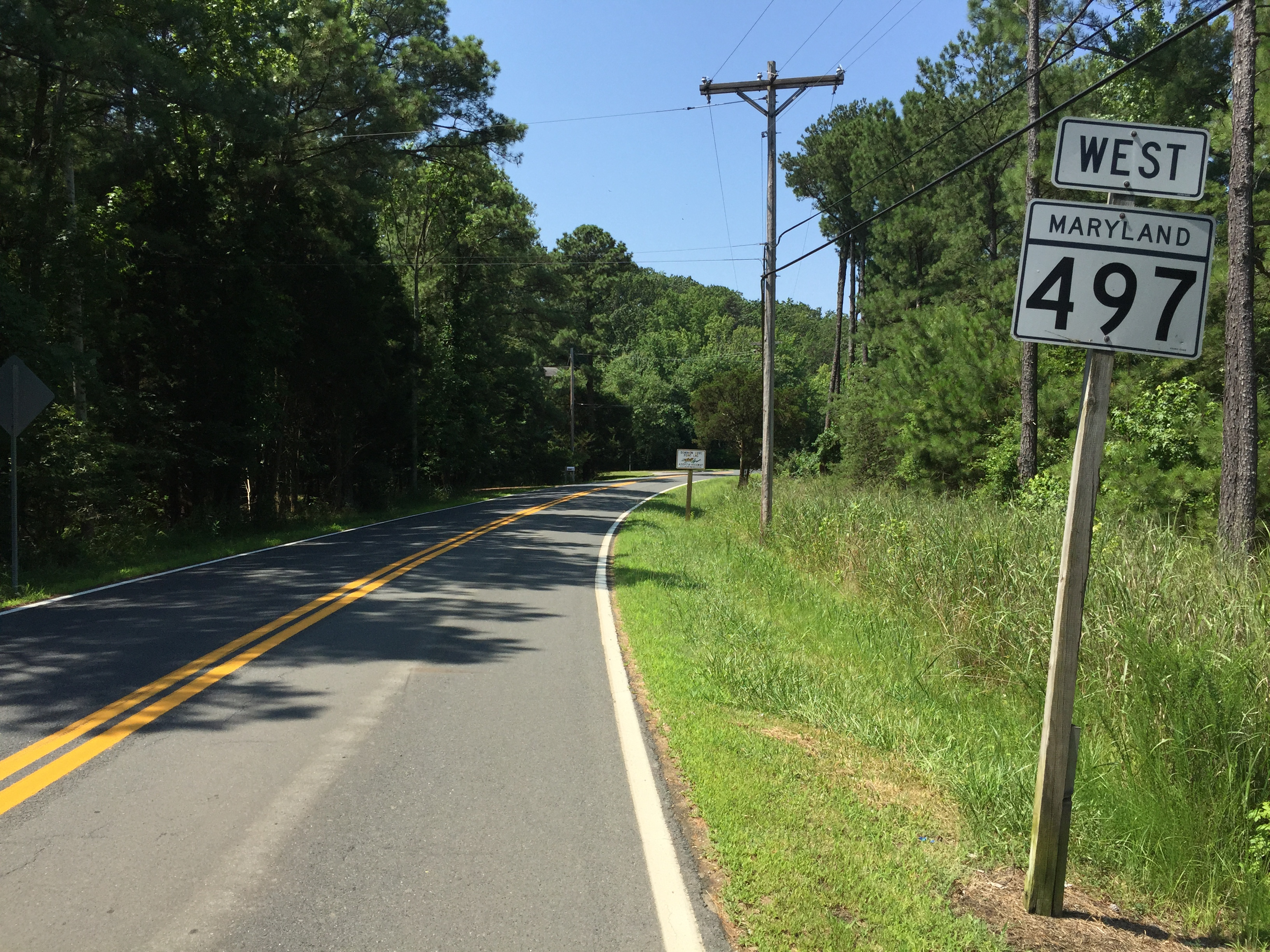 View west from the east end of Maryland State Route 497 (Cove Point Road) near Park Drive in Cove Point, Maryland